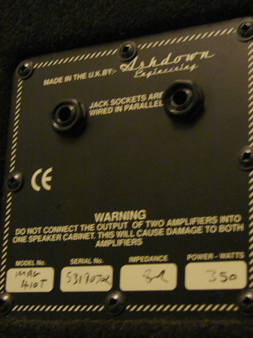 Ashdown cab